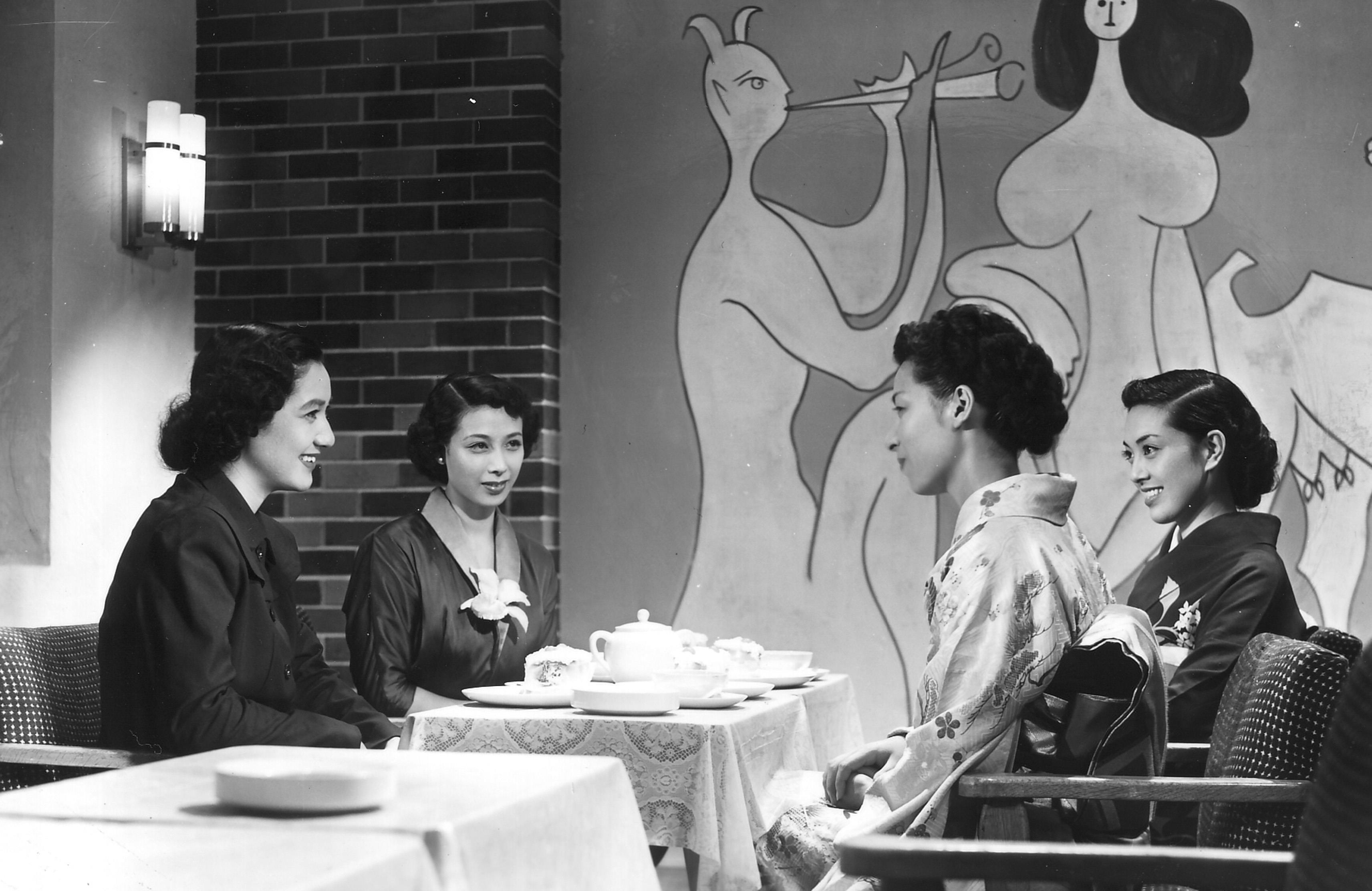 Setsuko Hara (Noriko Mamiya), Chikage Awashima (Aya Tamura), Matsuko Shiga (Mari Takanashi), Kuniko Igawa (Takako) in Bakushū (麦秋) directed by Yasujirō Ozu - 1951